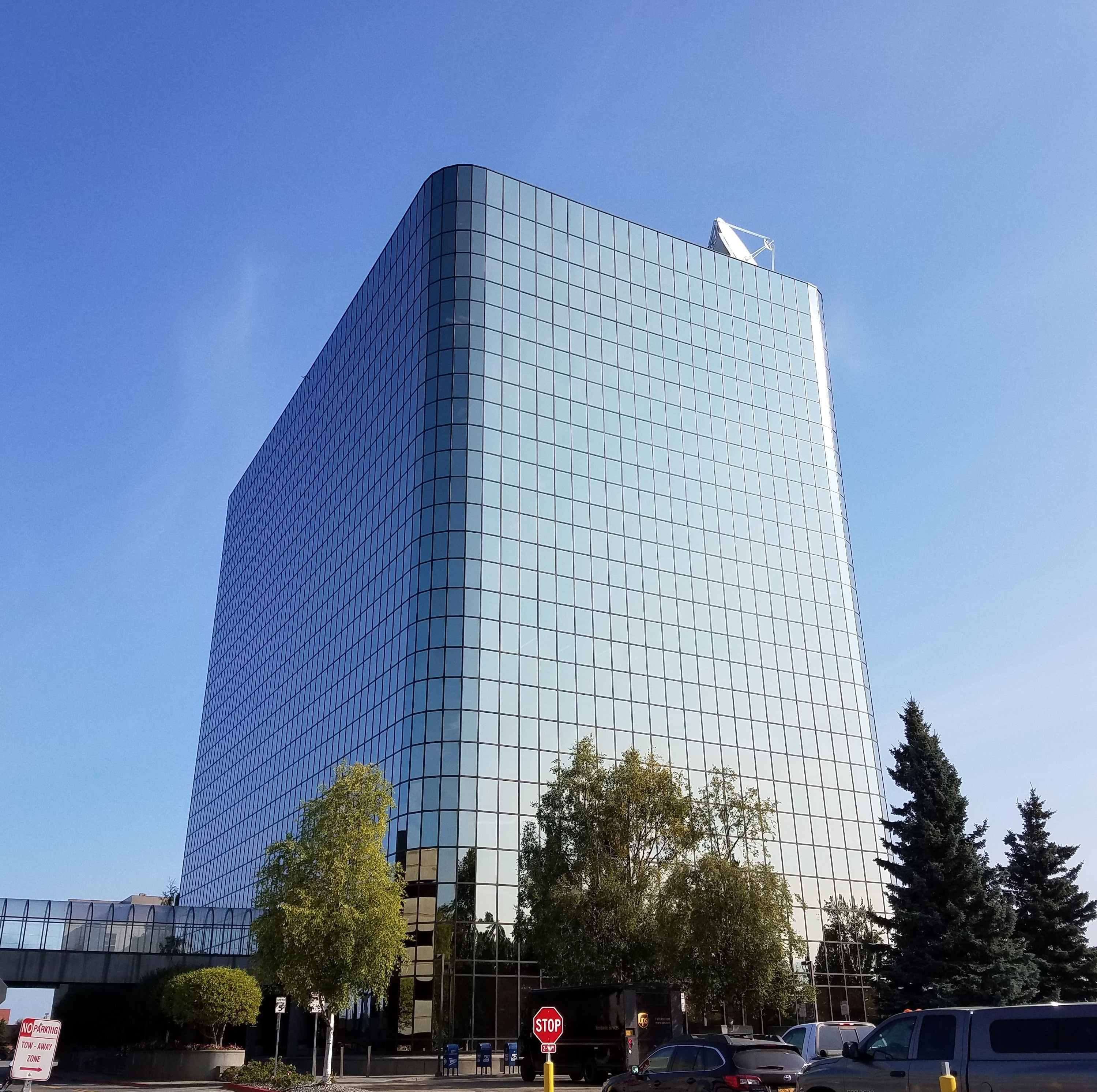 Frontier Building in midtown Anchorage, AK, USA. It hosts many organizations which include State of Alaska offices and the consular office of Japan.